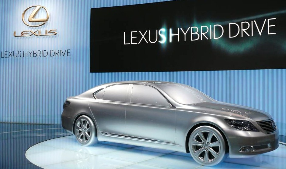 Lexus LS concept car